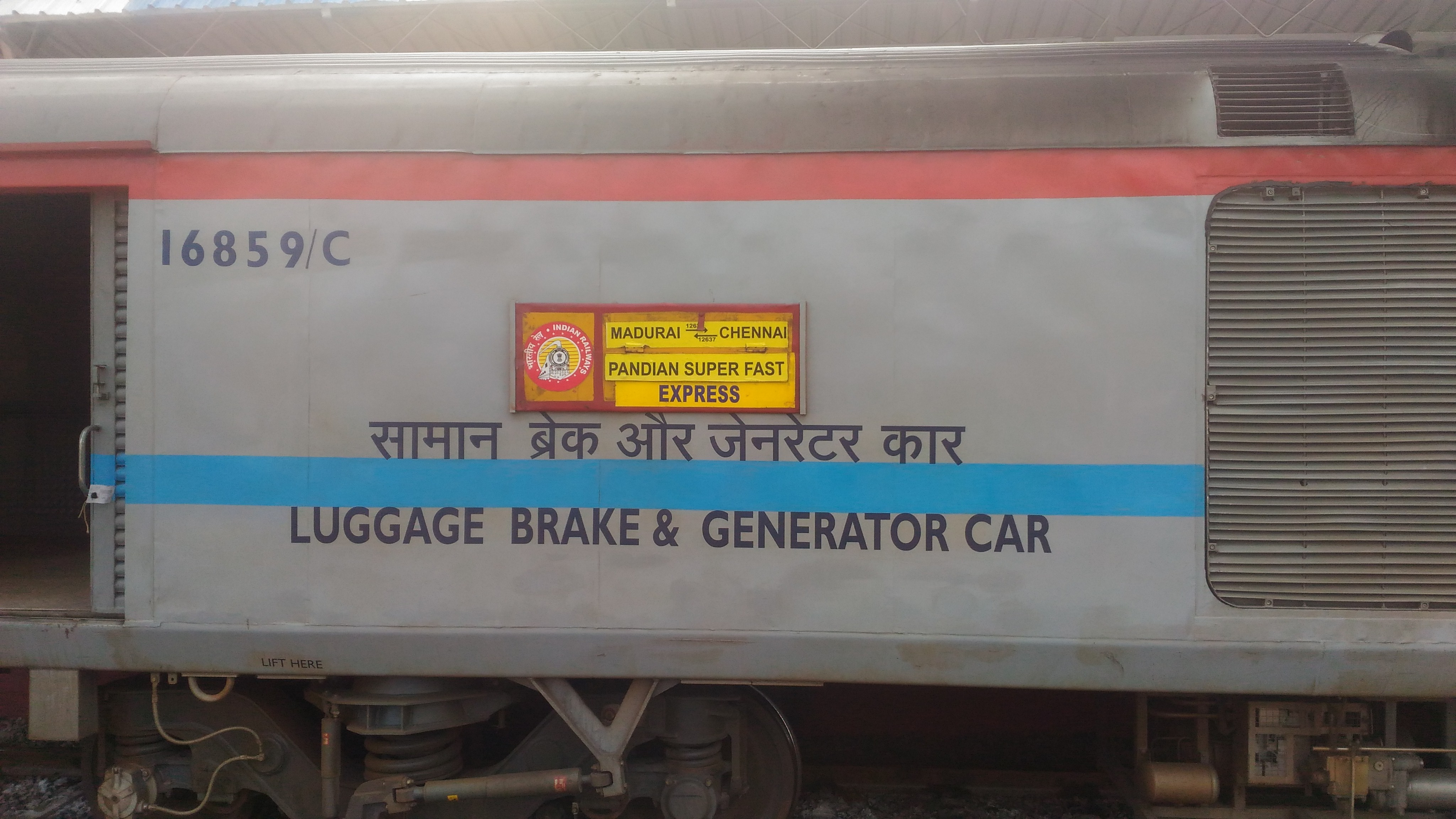 PANDIYAN EXPRESS NAME BOARD